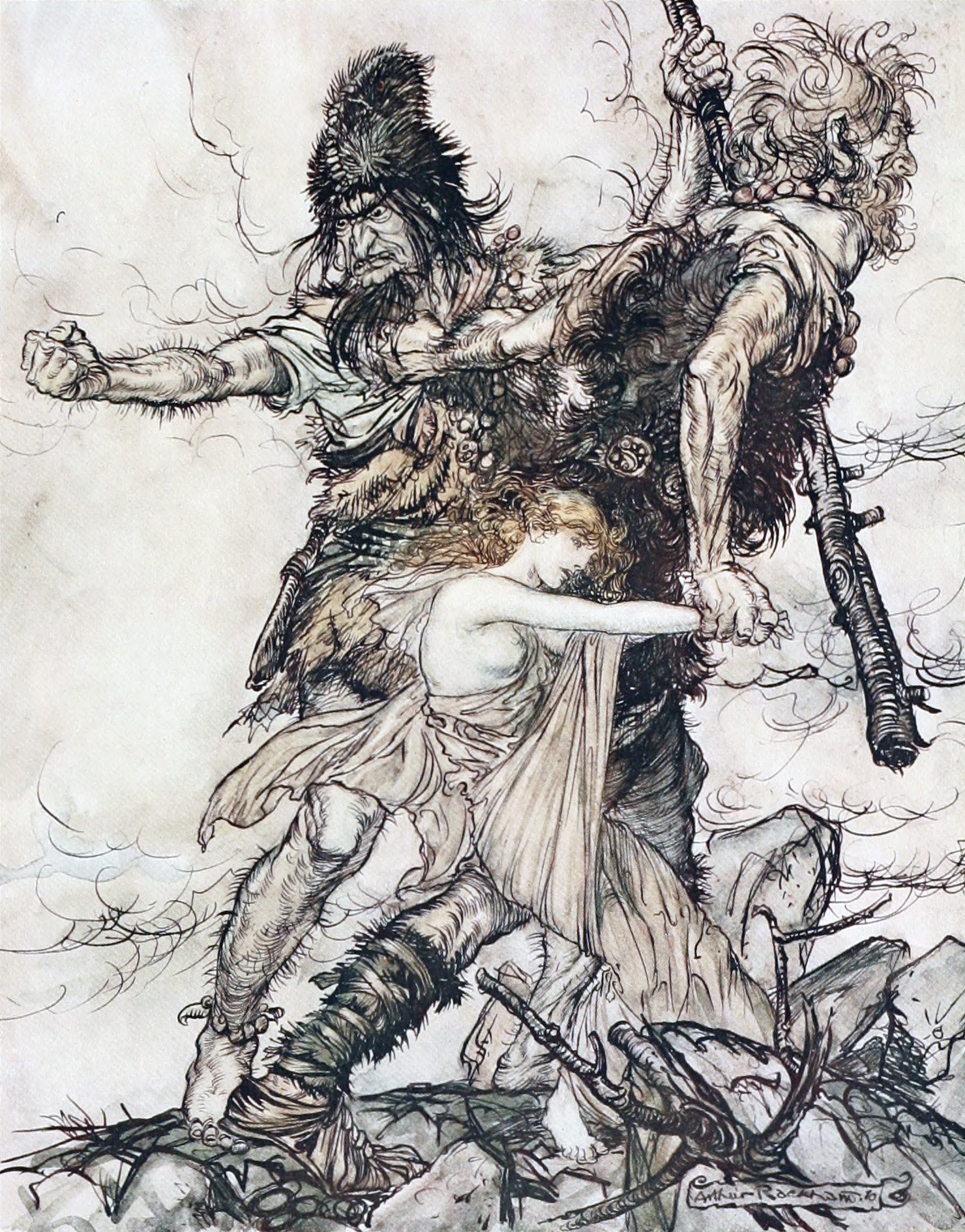 Fasolt suddenly seizes Freia and drags her to one side with Fafner.